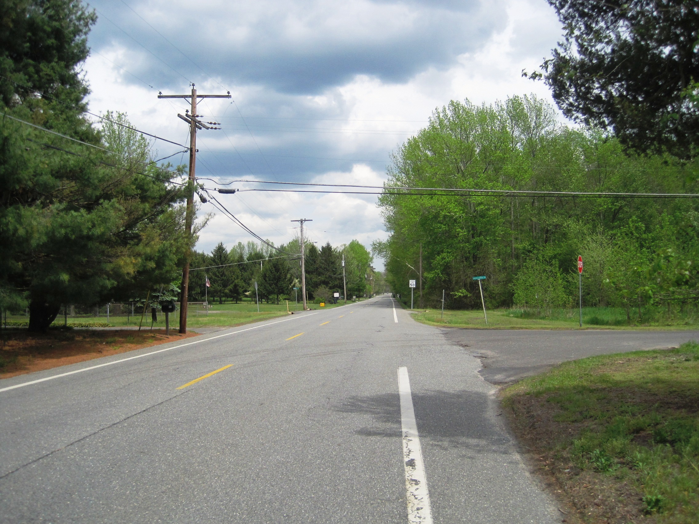 Photo showing Brindletown, New Jersey, an unincorporated community within Plumsted Township. Photo was taken along eastbound Long Swamp Road approaching Cranberry Canners Road.